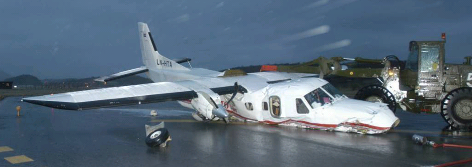 On 4 December 2003 a Dornier 228 operating Flight 603 was struck by lightning, causing a fracture to the control rod that operated the elevator.